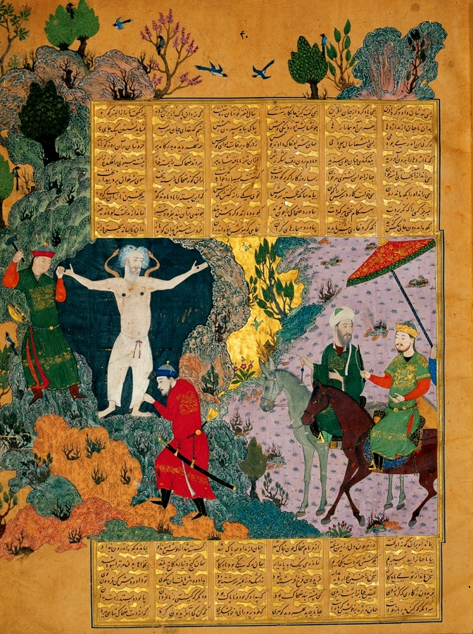 Zahhak_bound_on_mount_Damavand._Baysungur's_Shahnama,_1430._The_Gulistan_Palace_Museum,_Tehran.f040